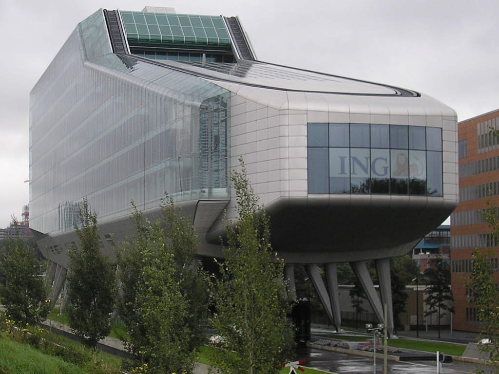 ING House. Corparate headquarters of the Dutch multinational financial corporation ING. Located in Amsterdam on the Zuidas development area with many international corporate headquarters. Location: Amstelveenseweg 500, Amsterdam, Netherlands (alongside the A10 highway Ringweg-Zuid) Keywords: The Shoe --- nl: ING House. Hoofdkantoor van de ING op de Zuidas in Amsterdam. Locatie: Amstelveenseweg 500, Amsterdam, NL (pal naast de A10 Ringweg-Zuid) Trefwoorden: De schoen